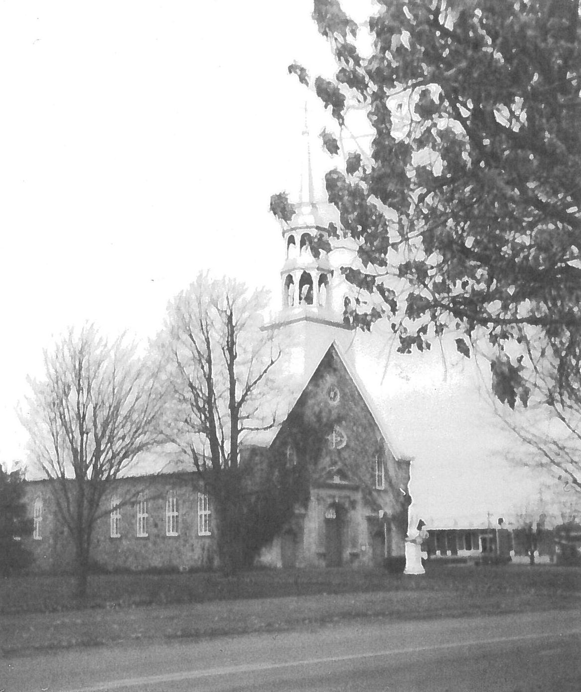 Church of La Présentation, Quebec